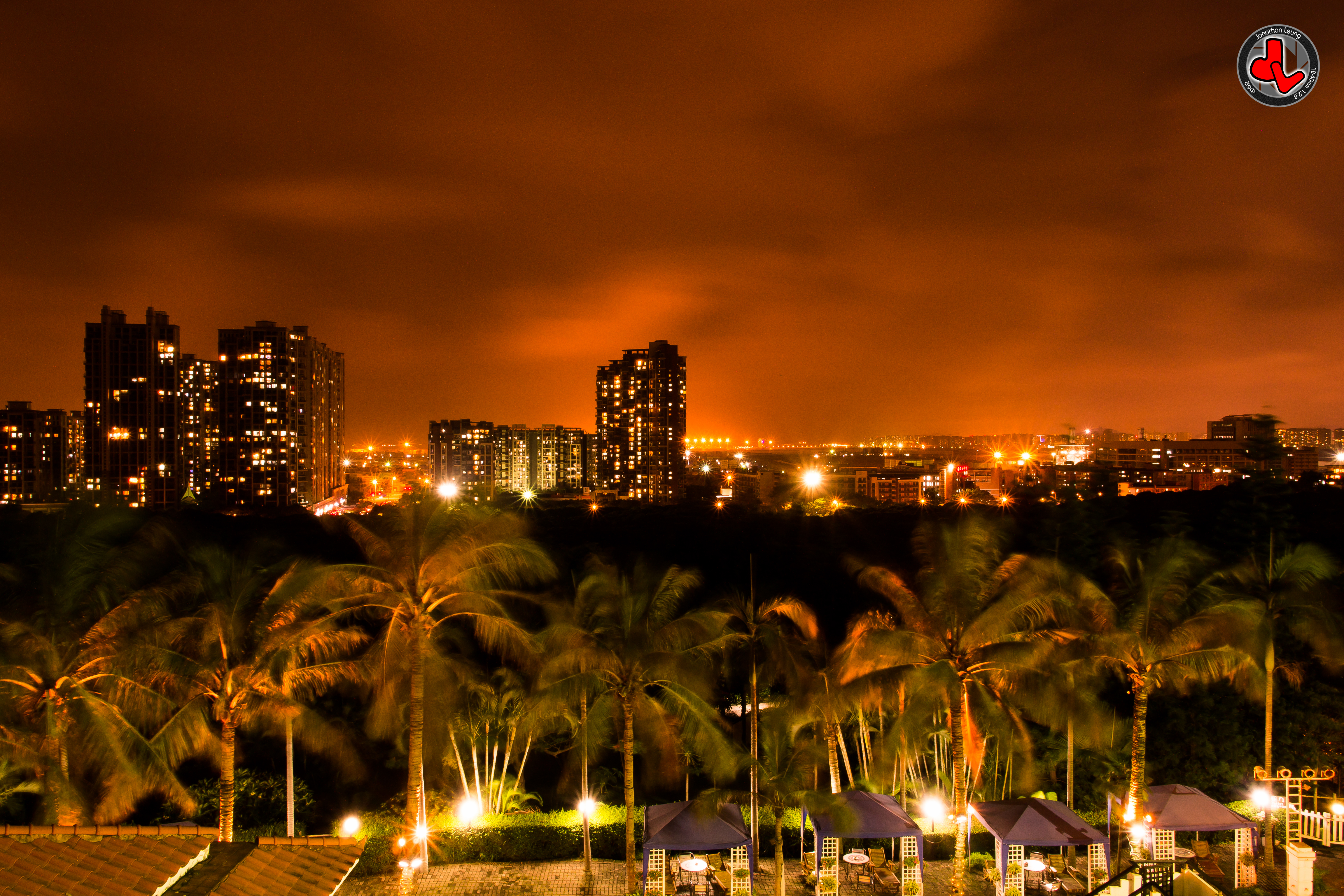 Shenzhen Bay at night, Shenzhen, China